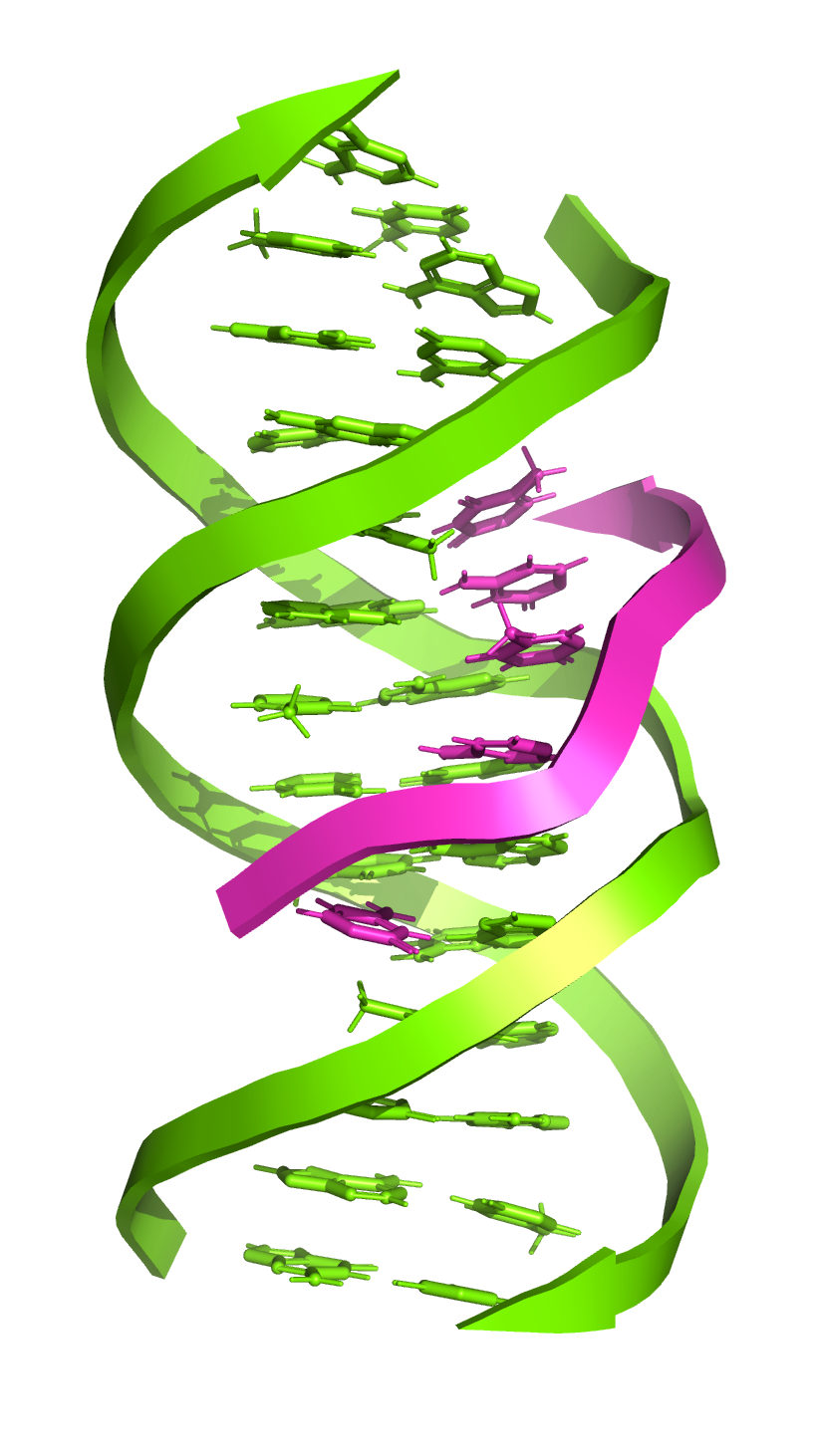 Pymol image of a triplex DNA structure (PDB: 1BWG). The arrows are going from the 5' end to the 3' end.